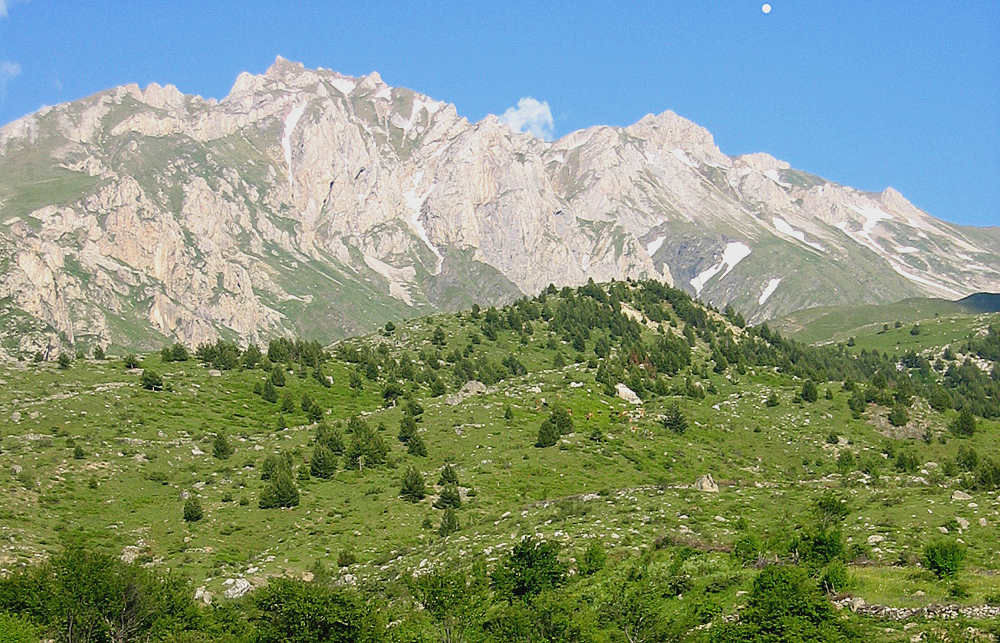 The Korab Mountain range seen from the Albanian side at Kala e Dodës (Radomira). The top (Maja e Korabit) is on the right in the back, marked by a small white dot on the top of the image.